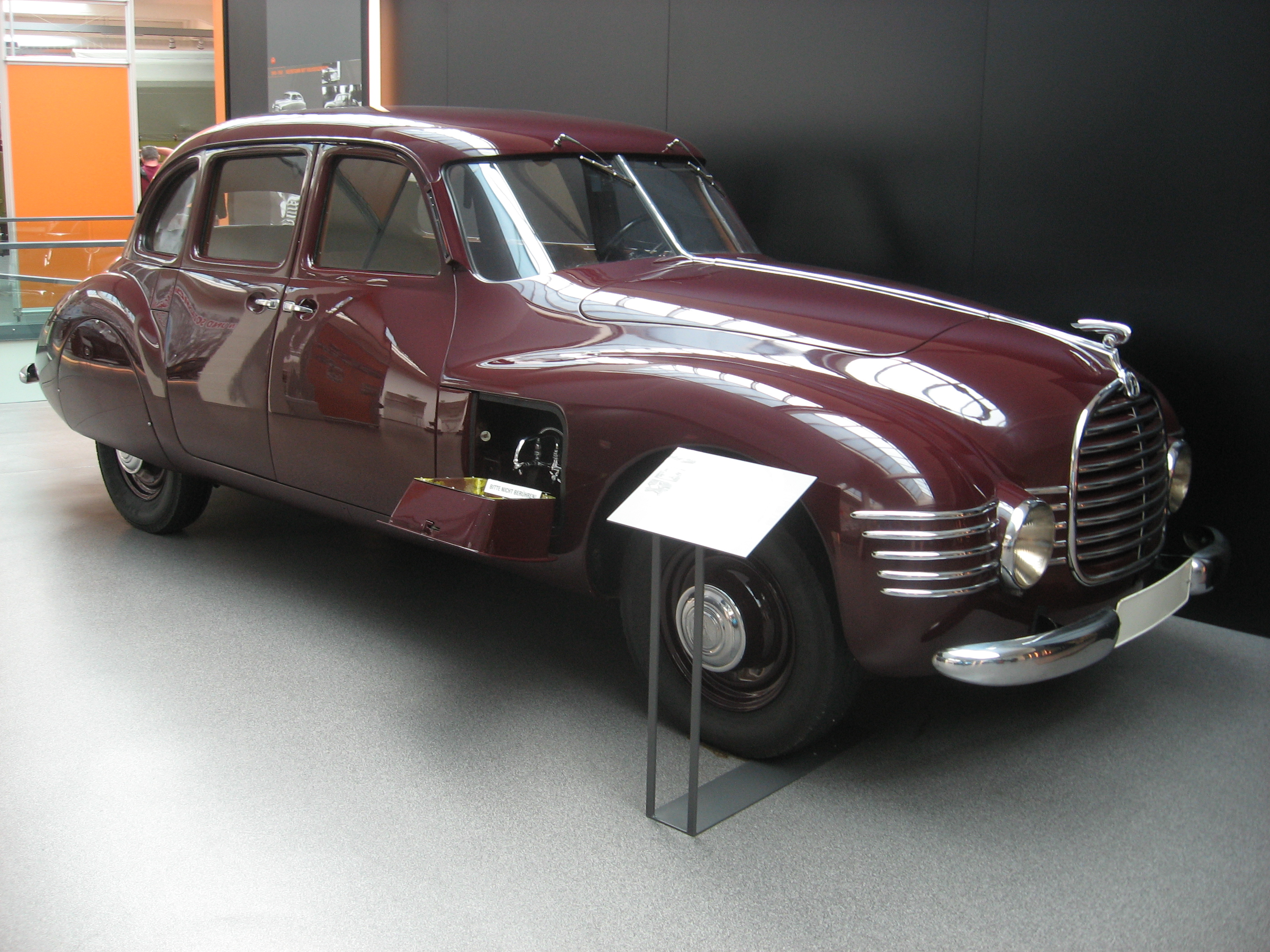 Horch 930S prototype in the Horch Museum, Zwickau (Germany